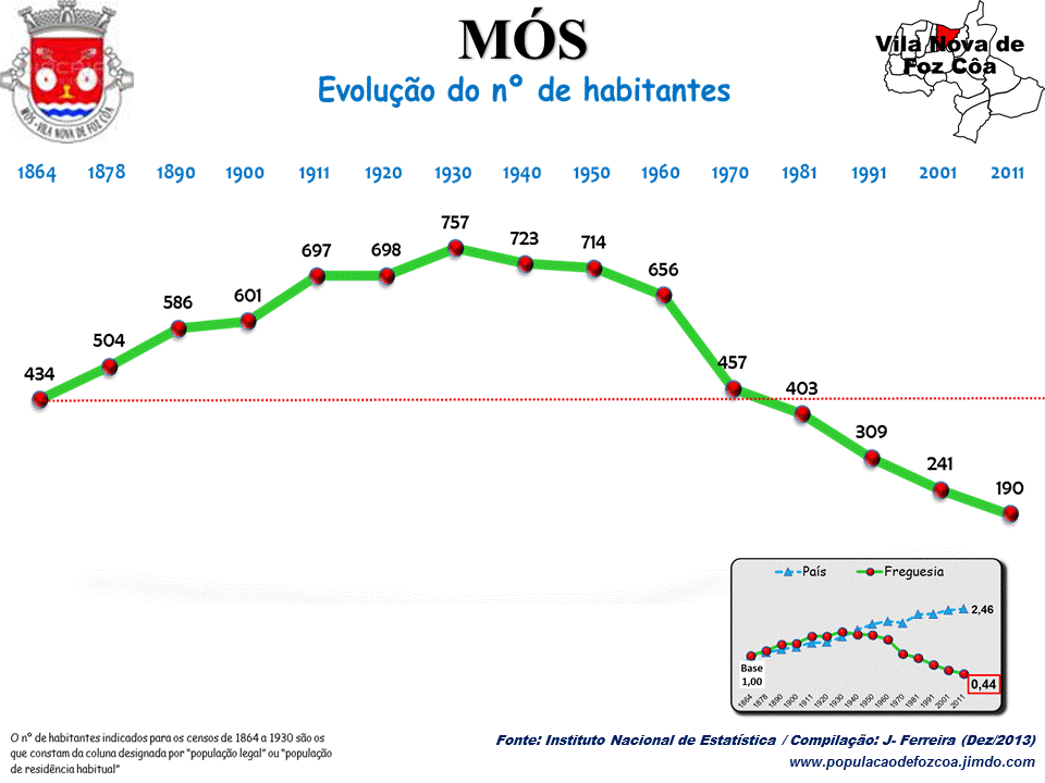 Evolução da População 1864 / 2011